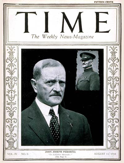 John J. Pershing on Time magazine cover, 1924.